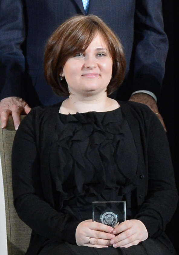 Elena Milashina of Russia with her International Women of Courage Award at the 2013 awards ceremony. [State Department photo/ Public Domain]